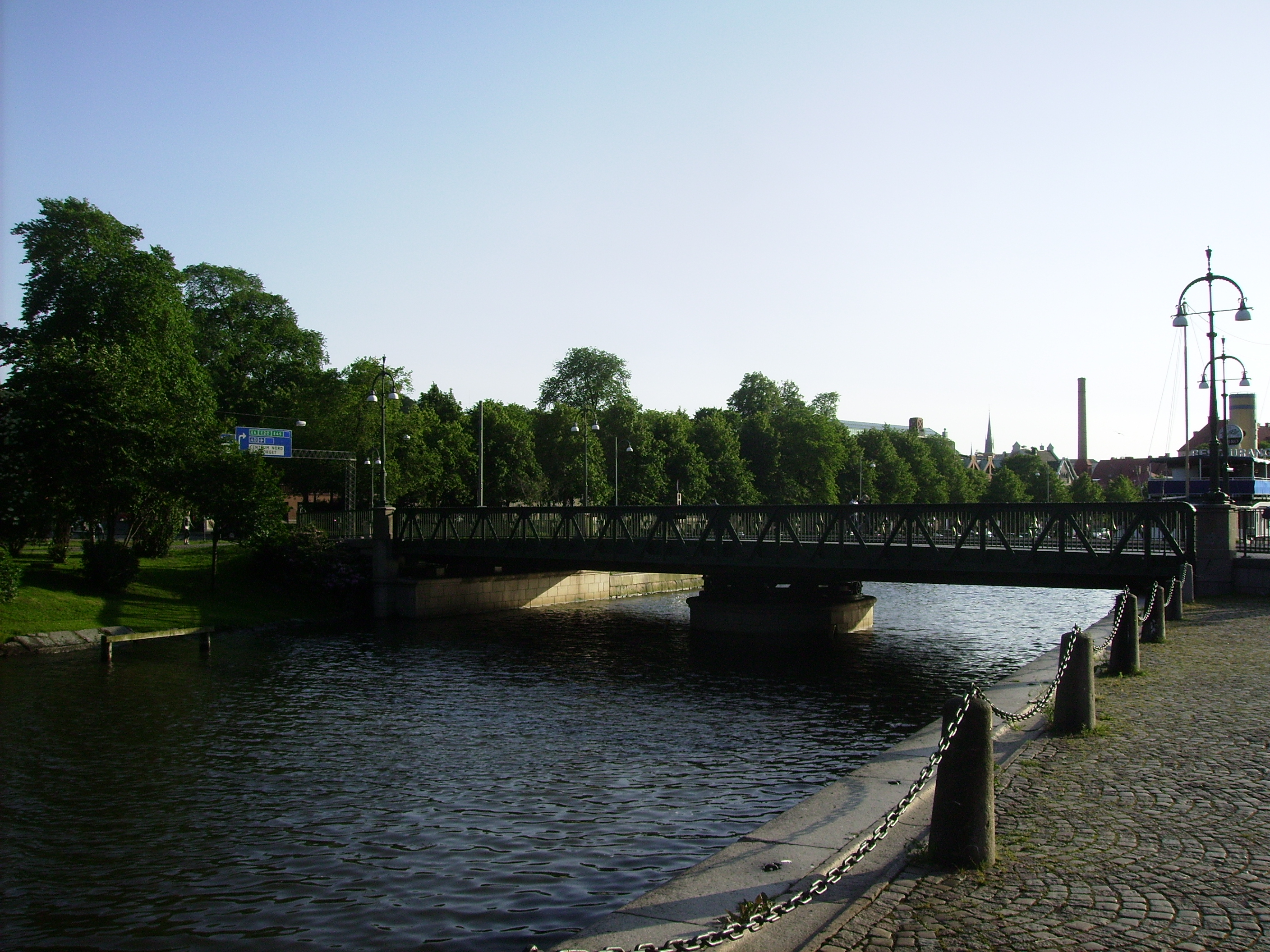 Picture of Rosenlundsbron, a bridge in Göteborg.